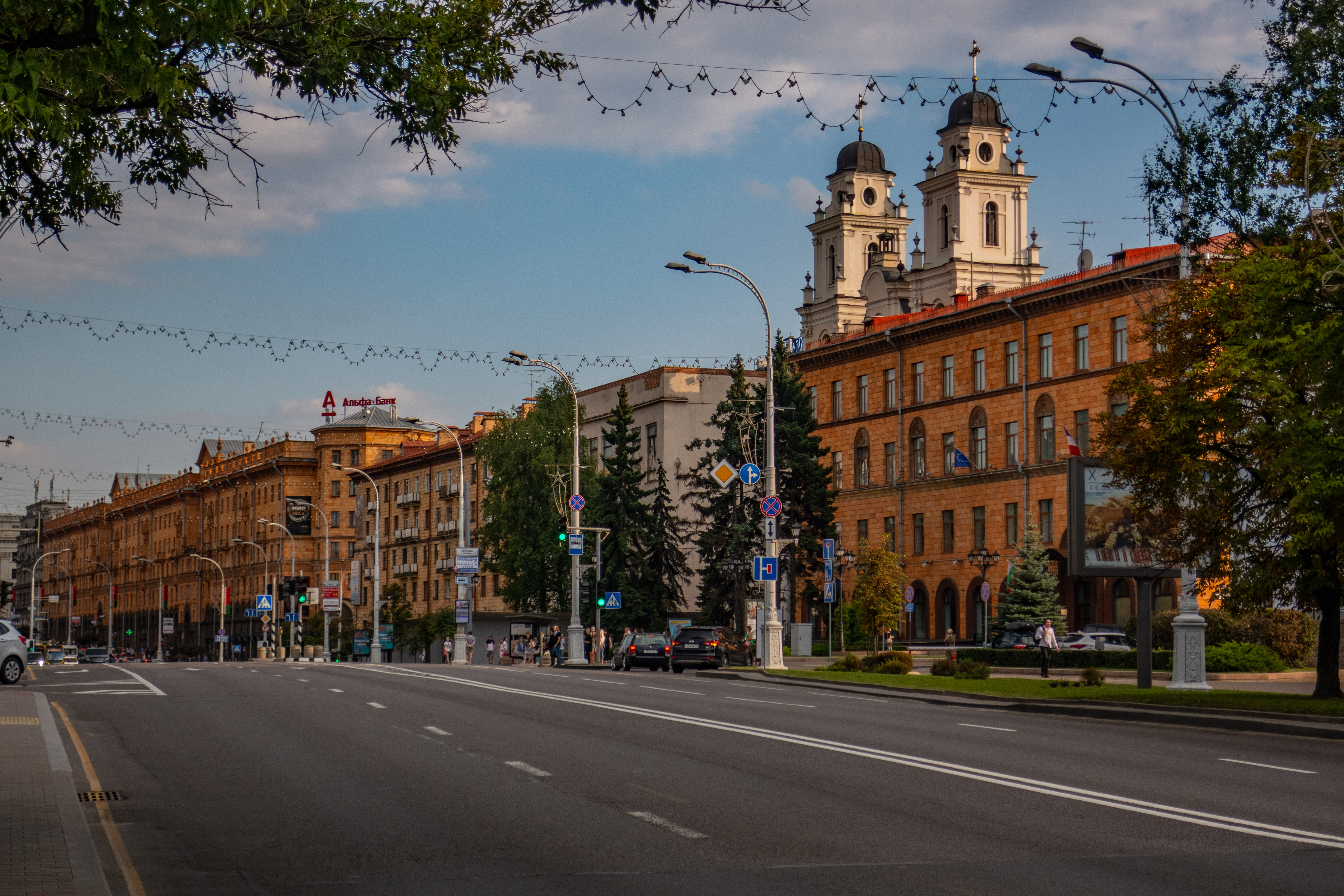 Lienina street. Minsk, Belarus